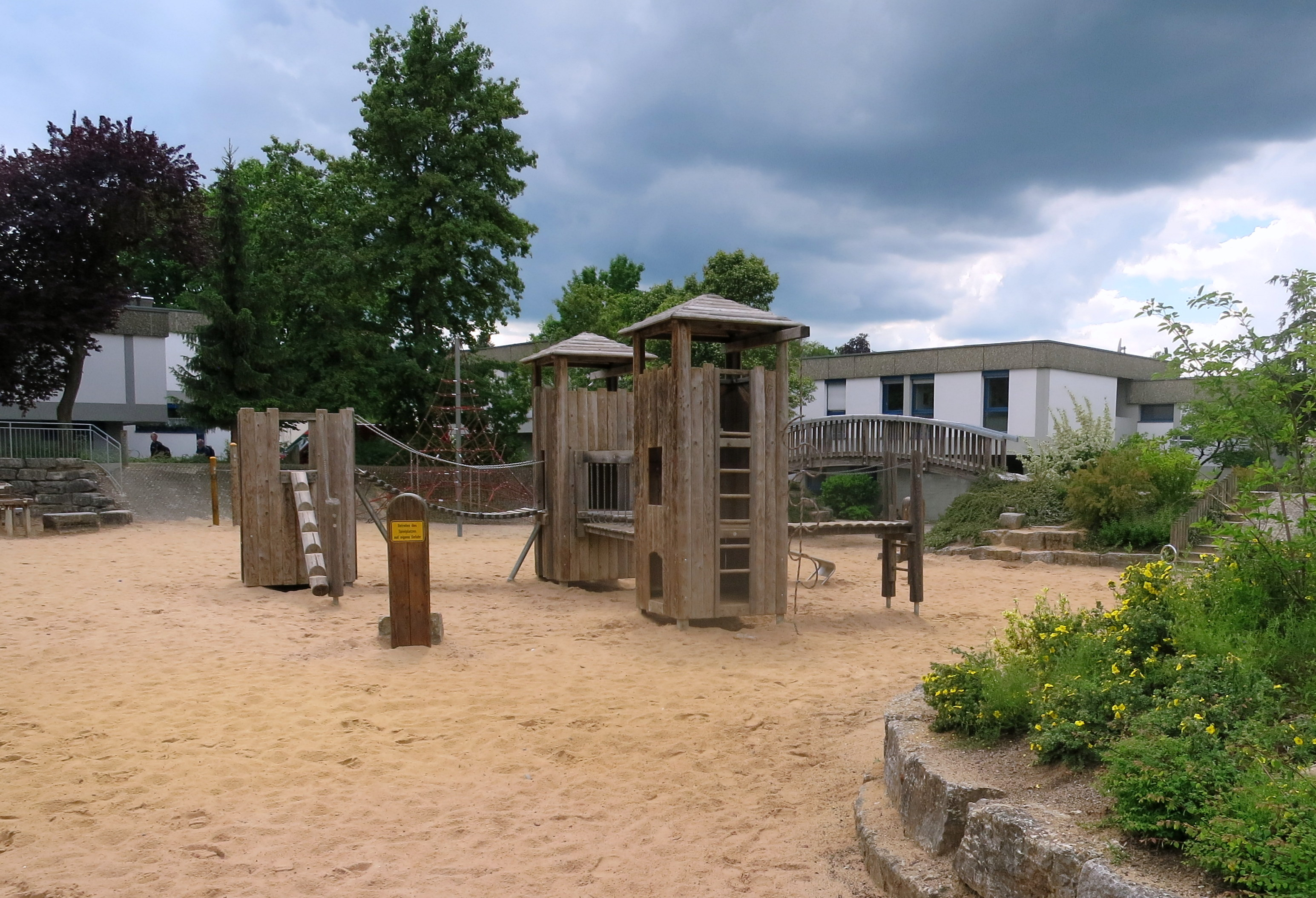 Village for children - pictures of the site Marienpflege Ellwangen